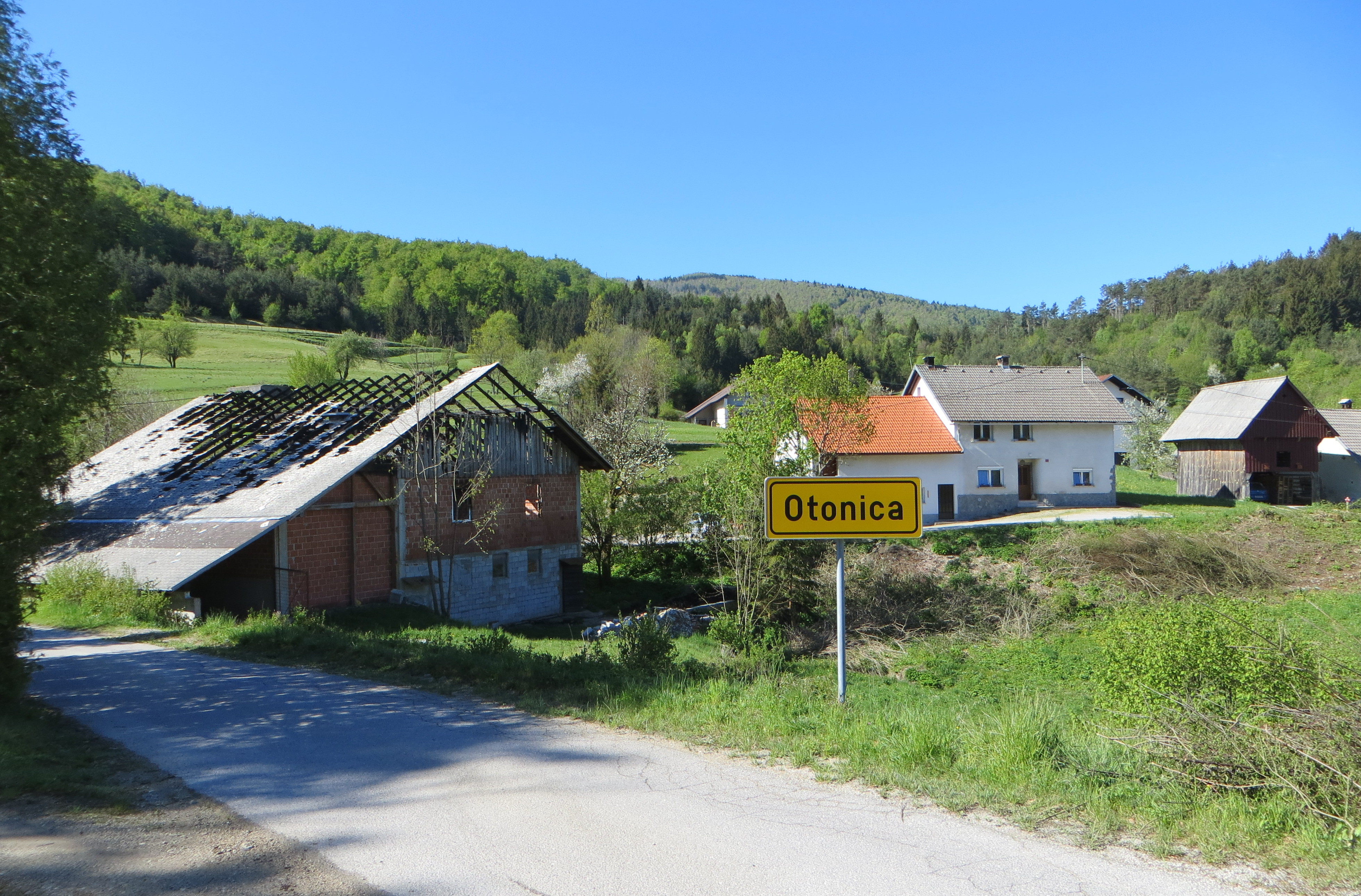 Otonica, Municipality of Cerknica, Slovenia